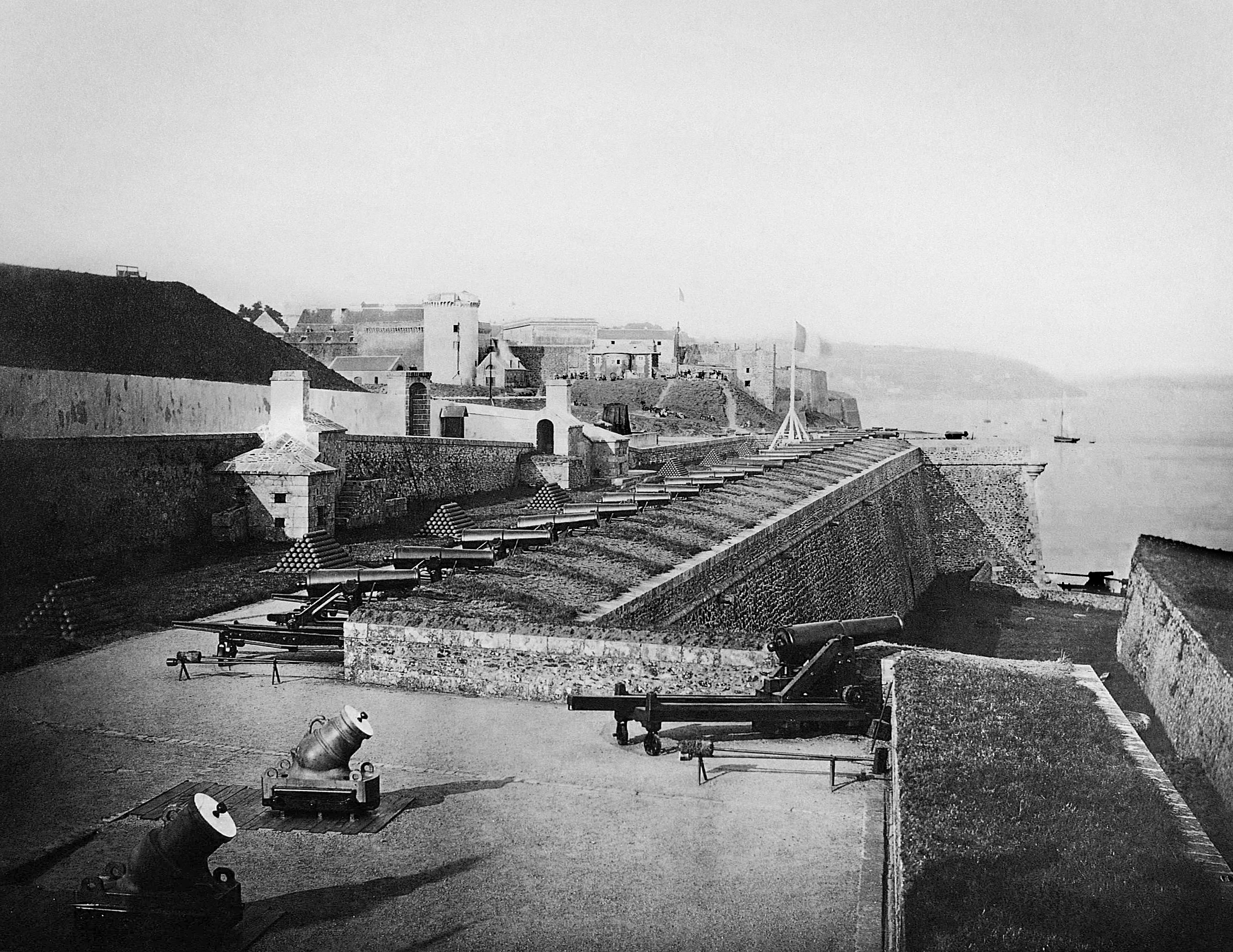 The Recouvrance cape in Brest with the upper Royal Artillery Battery and below it the horseshoe-shaped battery. Scan of a albumen print from a 315 x 405 mm collodion glass negative. The Royal Battery is visible on this map: File:Carte de Brest - ca 1700 - Bibliothèque Nationale de France - Btv1b8439976x.jpg This is one of the photos in a series made by Gustave Le Gray during a visit by Napoleon III to Brest when he toured French ports. The tour was notable and has been the subject of many paintings and engravings. At the time, Le Gray was an official photographer for the Second French Empire (see his biography). He had an impromptu access to this military site, the Royal Battery, and it is probably the only image from this angle. It is made in a very descriptive style, originating from the heliographic vocation and thus it gives us an inventory of places connected with the "art of war" (architecture and artillery). Le Gray was not only a photography pioneer (in the sense of it as a separate art), he was also one of the first photographers who through his work contributed to document and gather information about historic monuments, an encyclopedian in his own way.